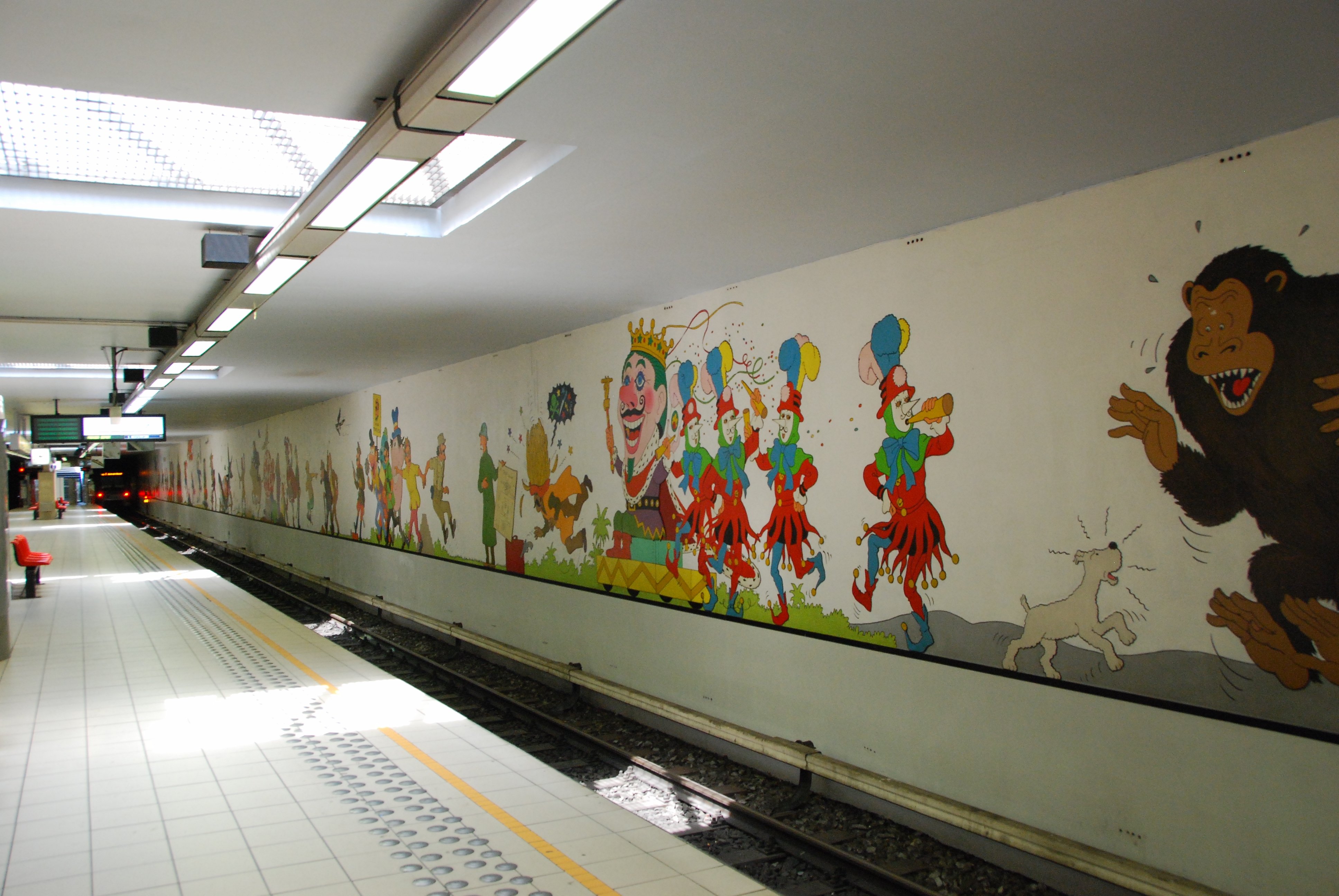 Brussels Stockel metro station